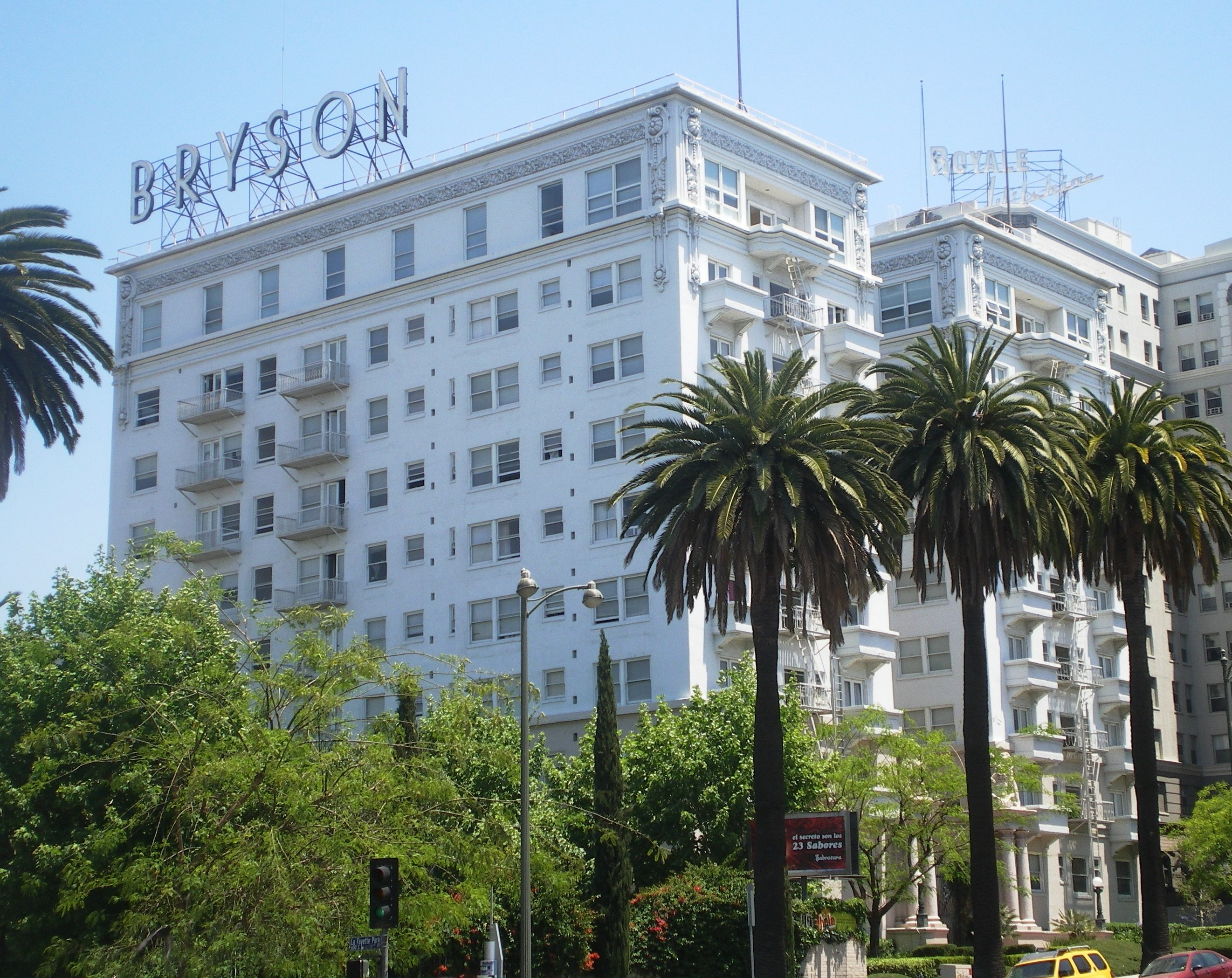 Bryson Apartment Hotel, 2701 Wilshire Boulevard, Los Angeles, California